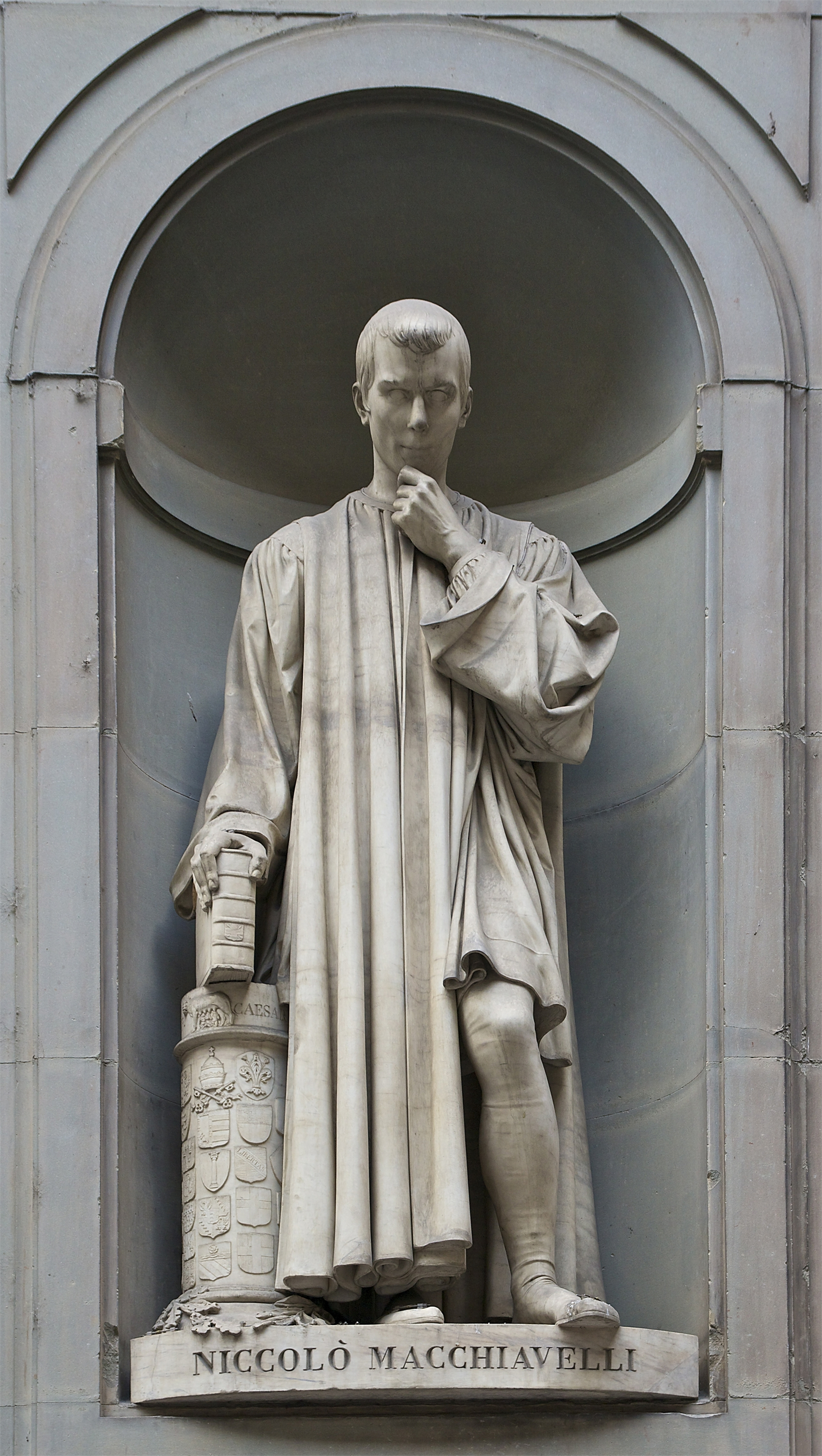 Statue of Niccolò Macchiavelli (Serie "the Great Florentines"), by Lorenzo Bartolini, Uffizi gallery, Florence, Italy.